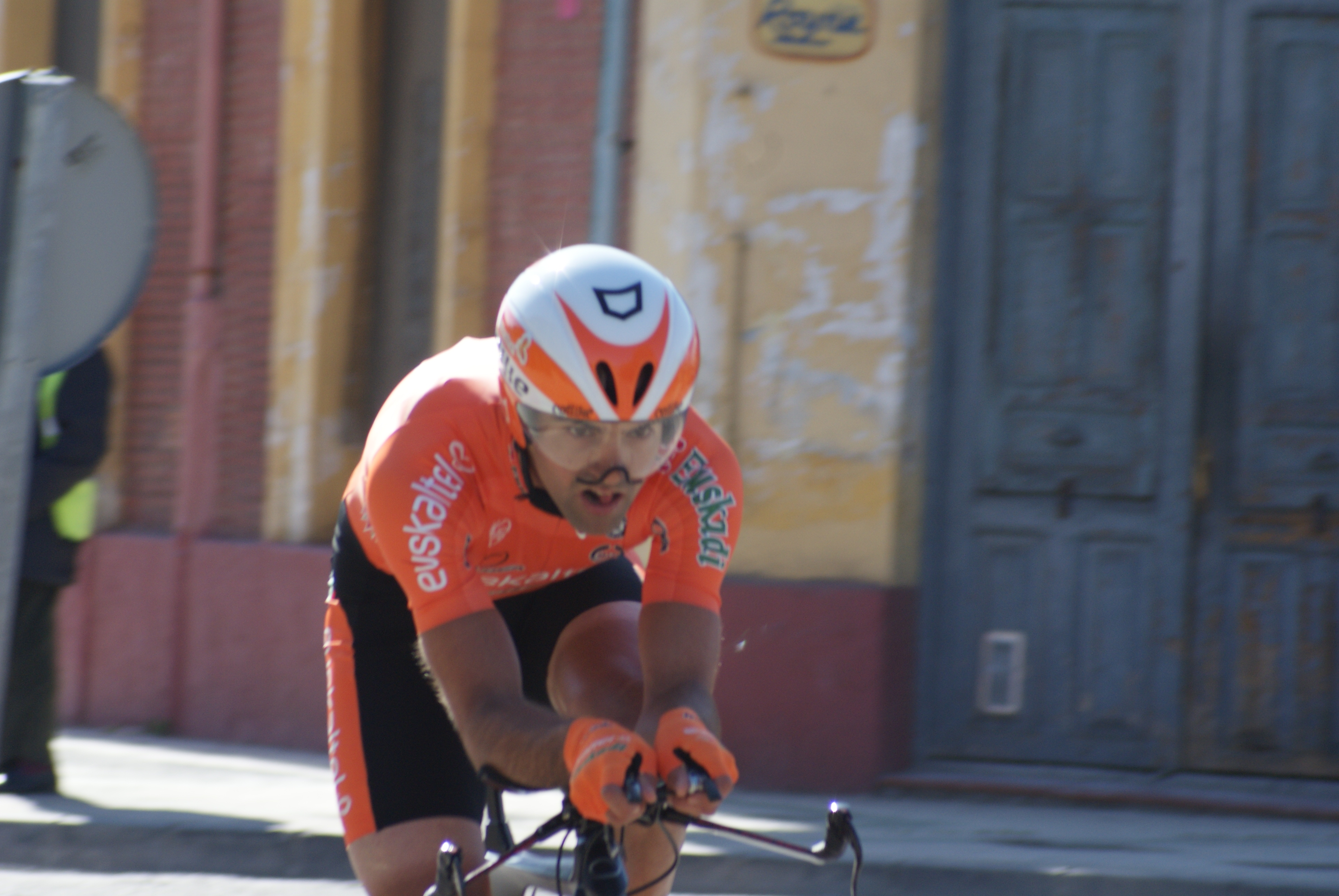 Spanish bicycle racer Rubén Pérez of the Euskaltel Euskadi team in Palencia (Spain) during Vuelta a Castilla y León 2009.